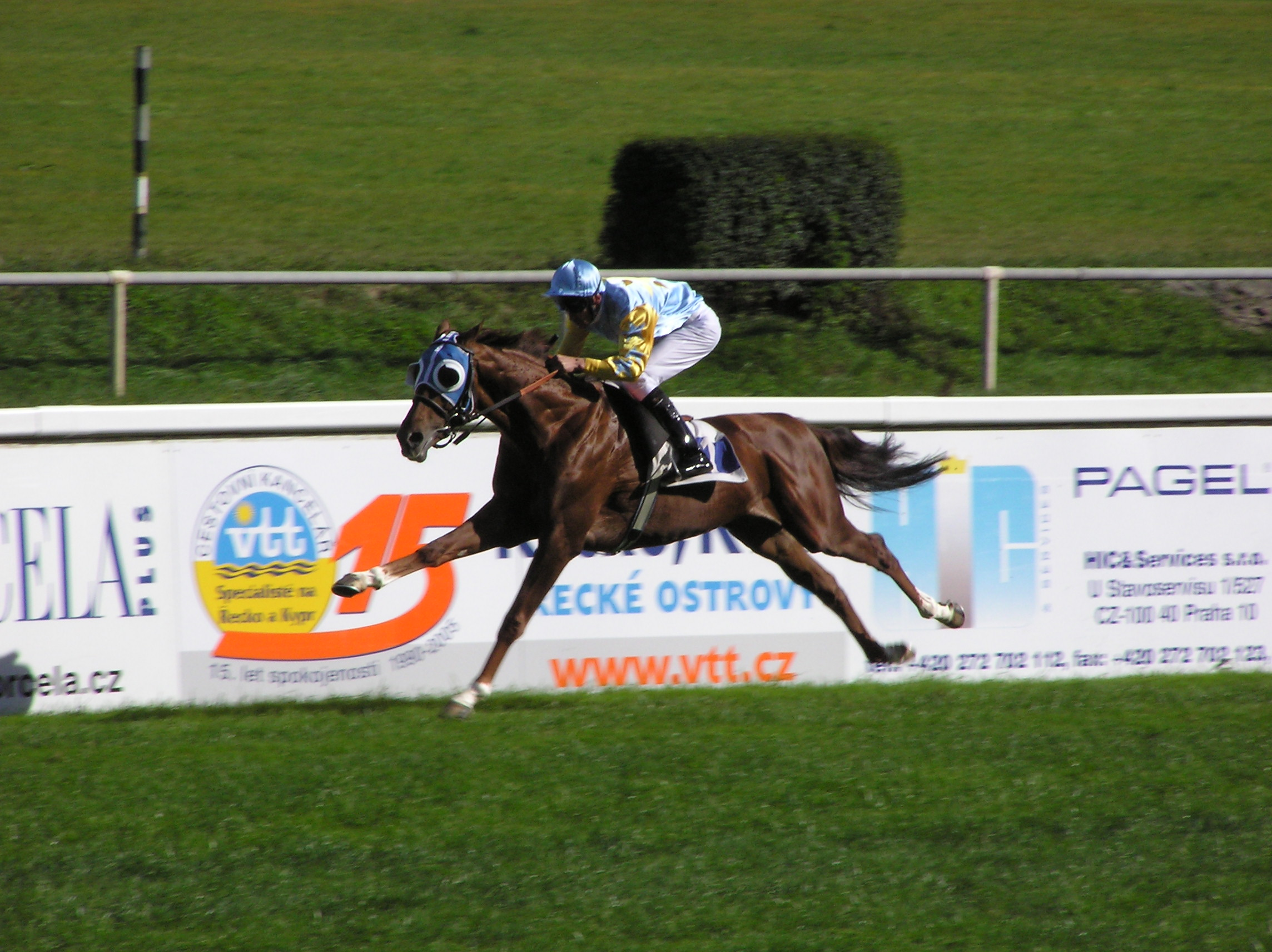 A winner of one of horse races on 18.9.05 in Velká Chuchle Prague Czech Republic. Author: User:Karakal